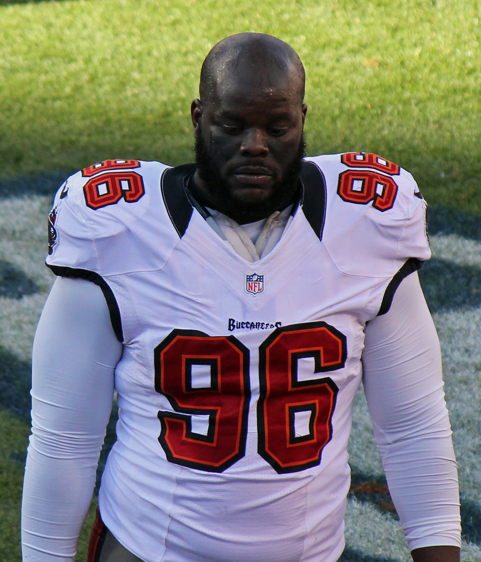 Corvey Irvin, a player on the National Football League.